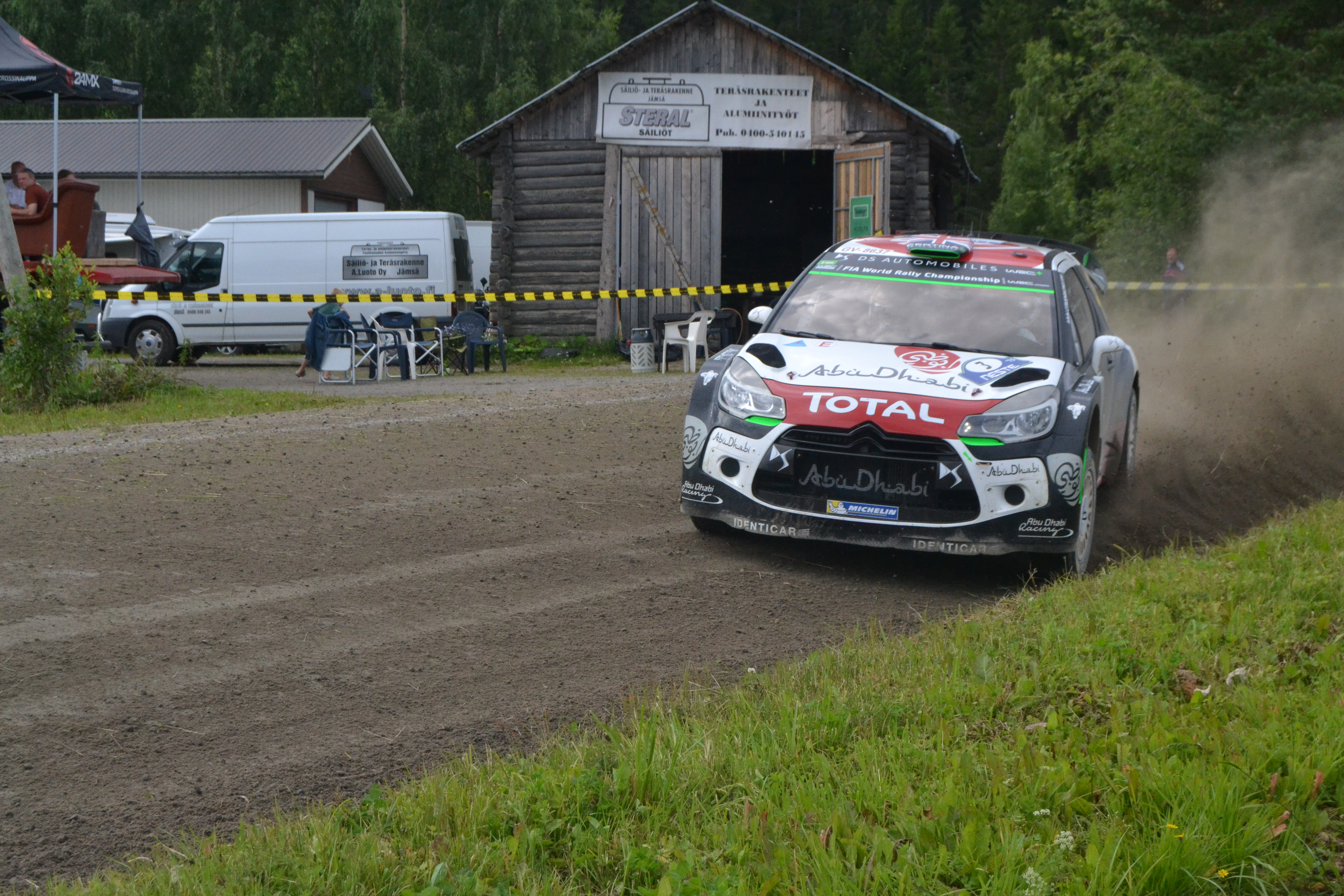 Kris Meeke at 1st Ouninpohja stage at Rally Finland 2015